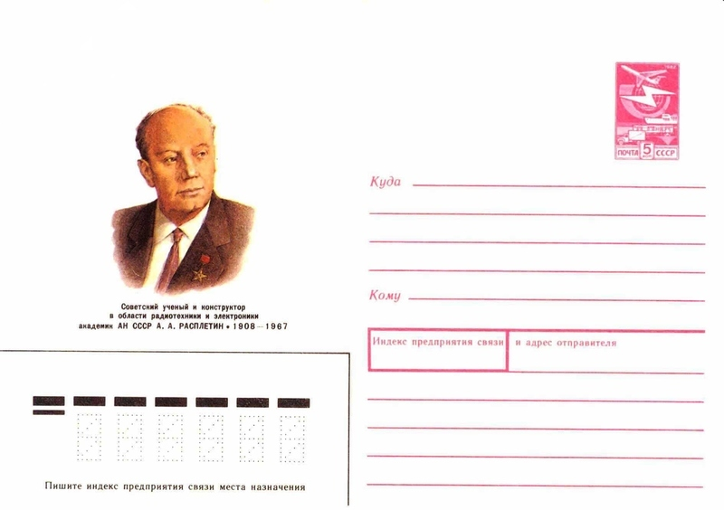 1988 Soviet postal cover with portrait of Aleksandr Raspletin